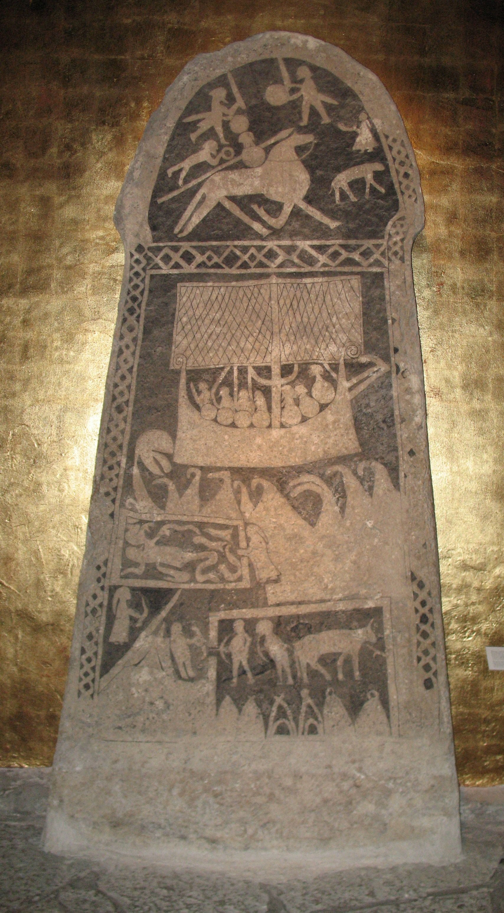 stone